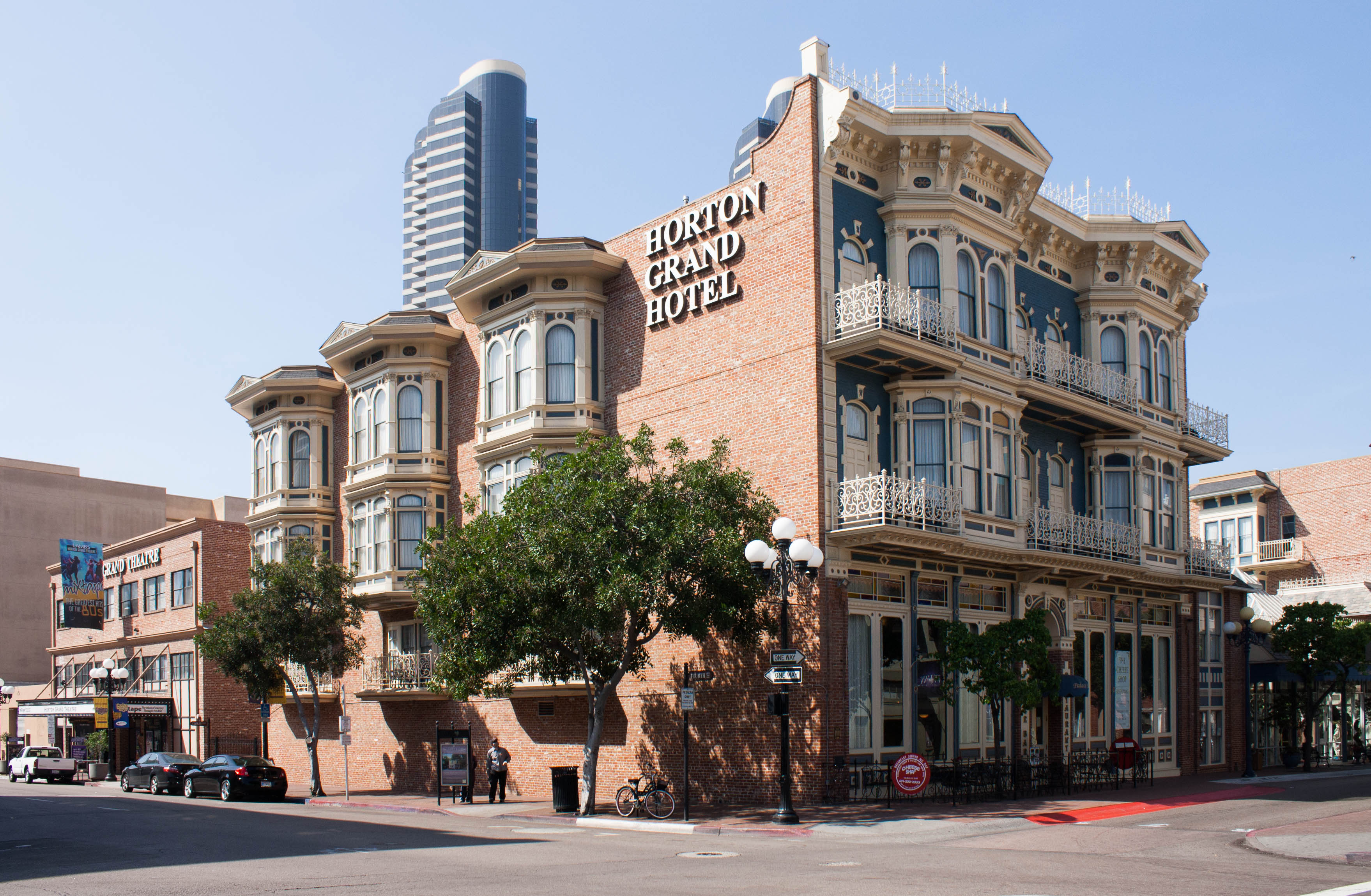 The Horton Grand Hotel (1886), San Diego, California